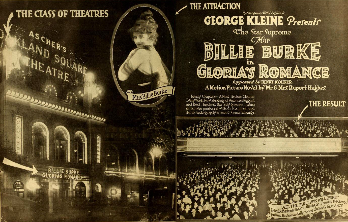 Advertisement in Moving Picture World for the film Gloria's Romance (1916).